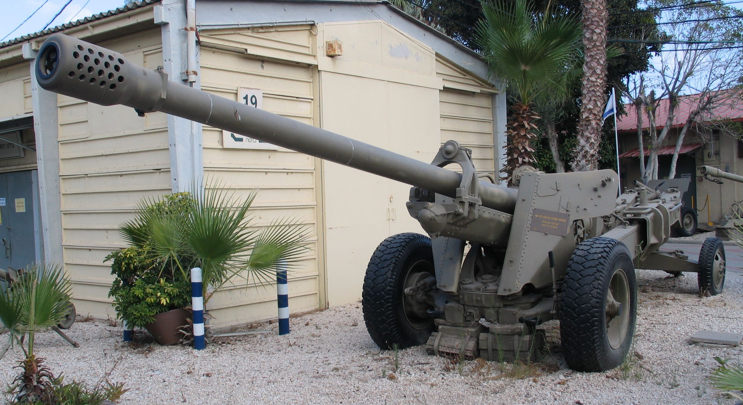 Soviet M-46 130 mm gun in Batey ha-Osef Museum, Tel Aviv, Israel.